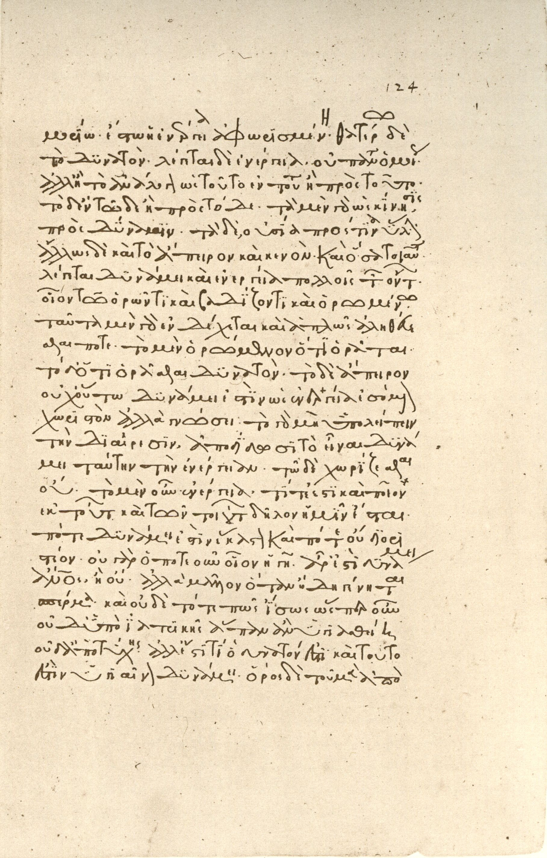 Aristotle, Metaphysics in ms. Biblioteca Apostolica Vaticana, Vaticanus graecus 256, fol. 124r.